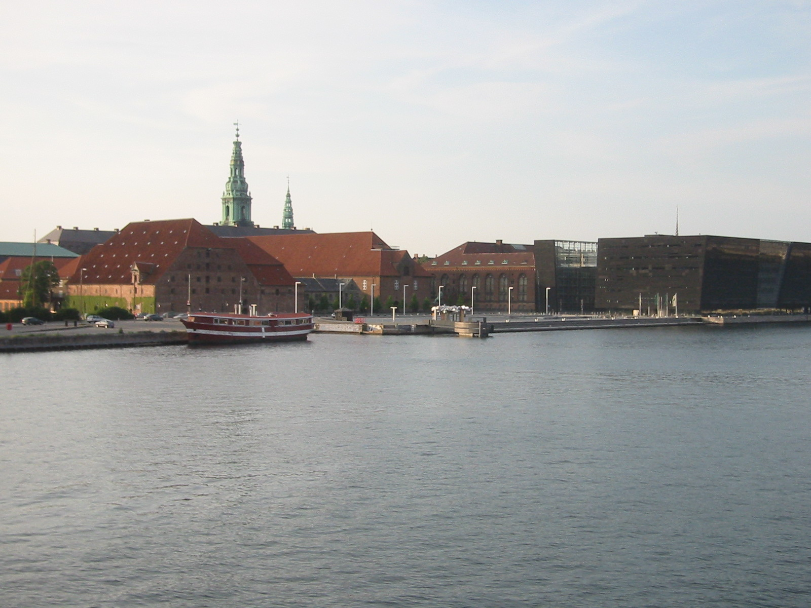 The old (1905) portion of the Danish Royal Library in Copenhagen